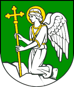 Coat of arms of Prievidza, Slovakia